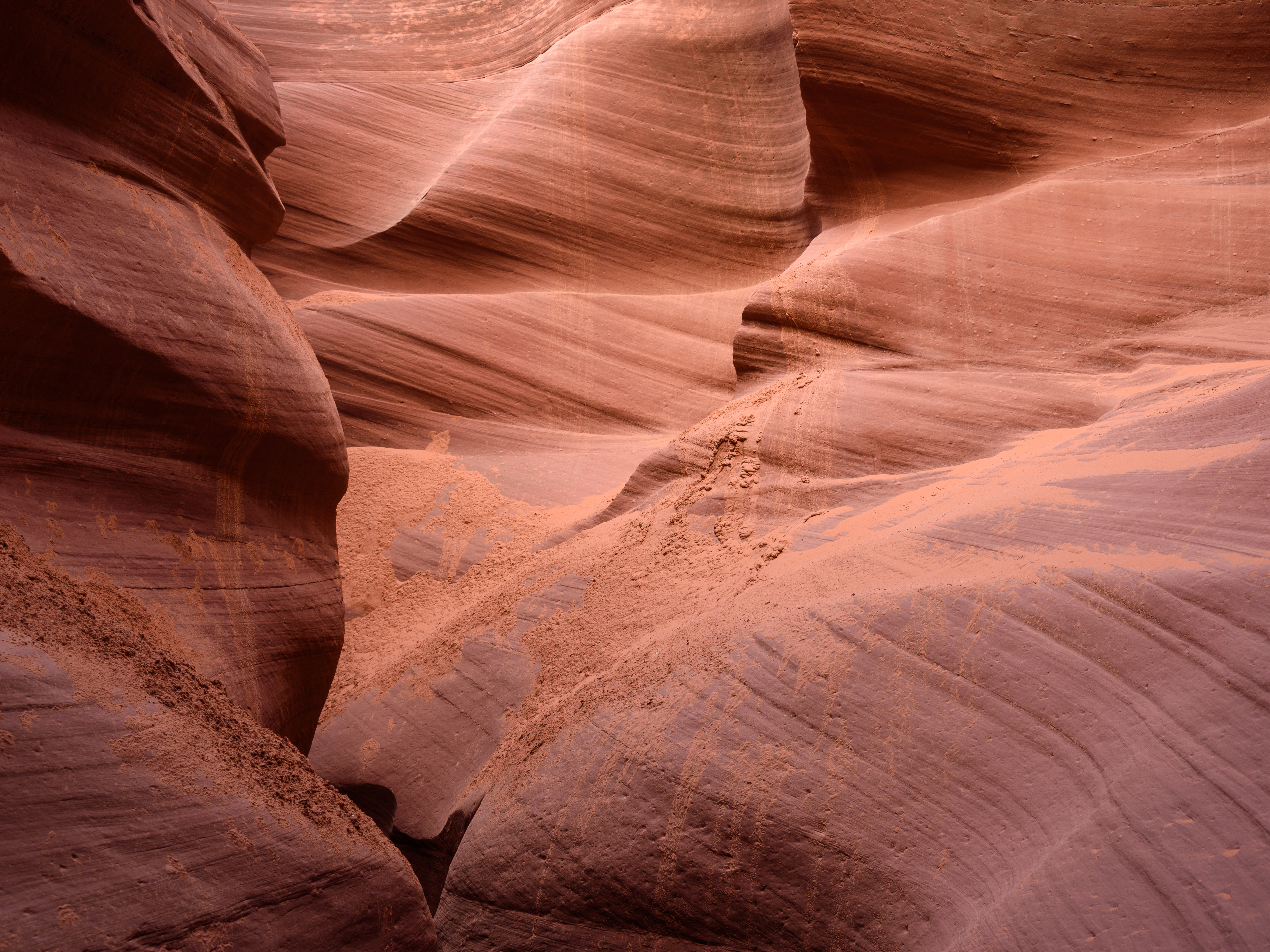 Interior of Lower Antelope Canyon.